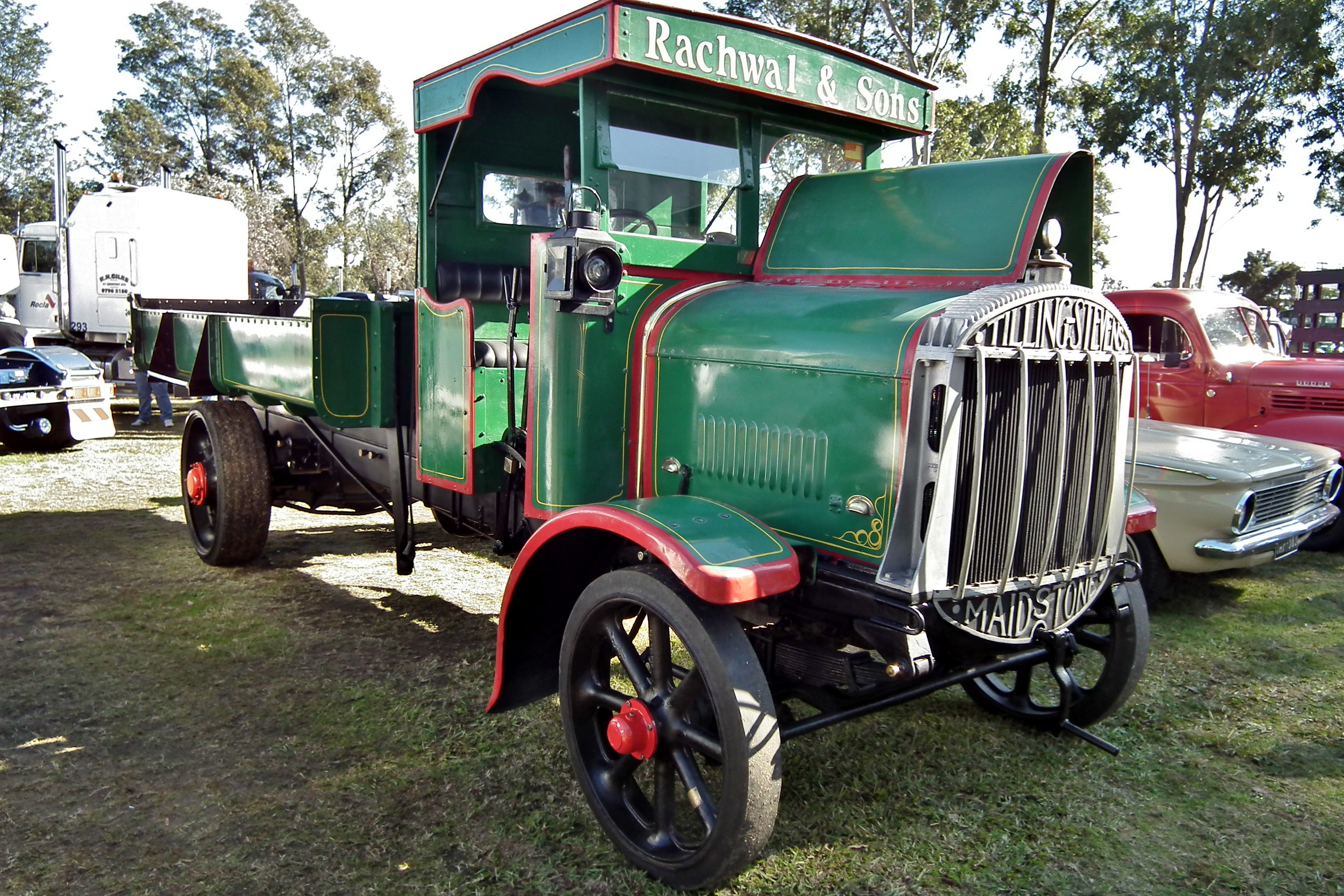 1914 Tilling-Stevens TSB3 tipper truck at the 2011 Sydney Antique & Classic Truck Show, held at the Museum of Fire in Penrith, NSW